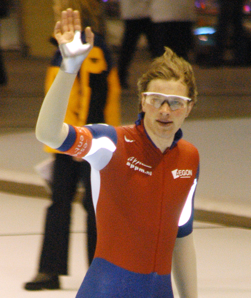 Lars Elgersma (NED) at a world cup speedskating in Heerenveen, the Netherlands.